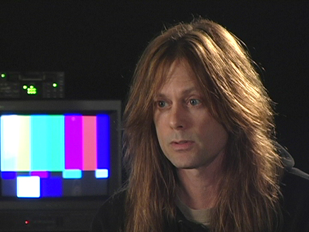 Rat Skates, in 2007 from "Born in The Basement" studio filming.